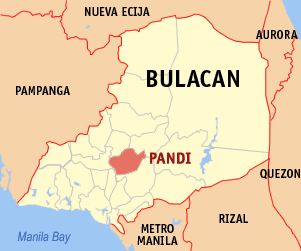 Map of Bulacan showing the location of Pandi